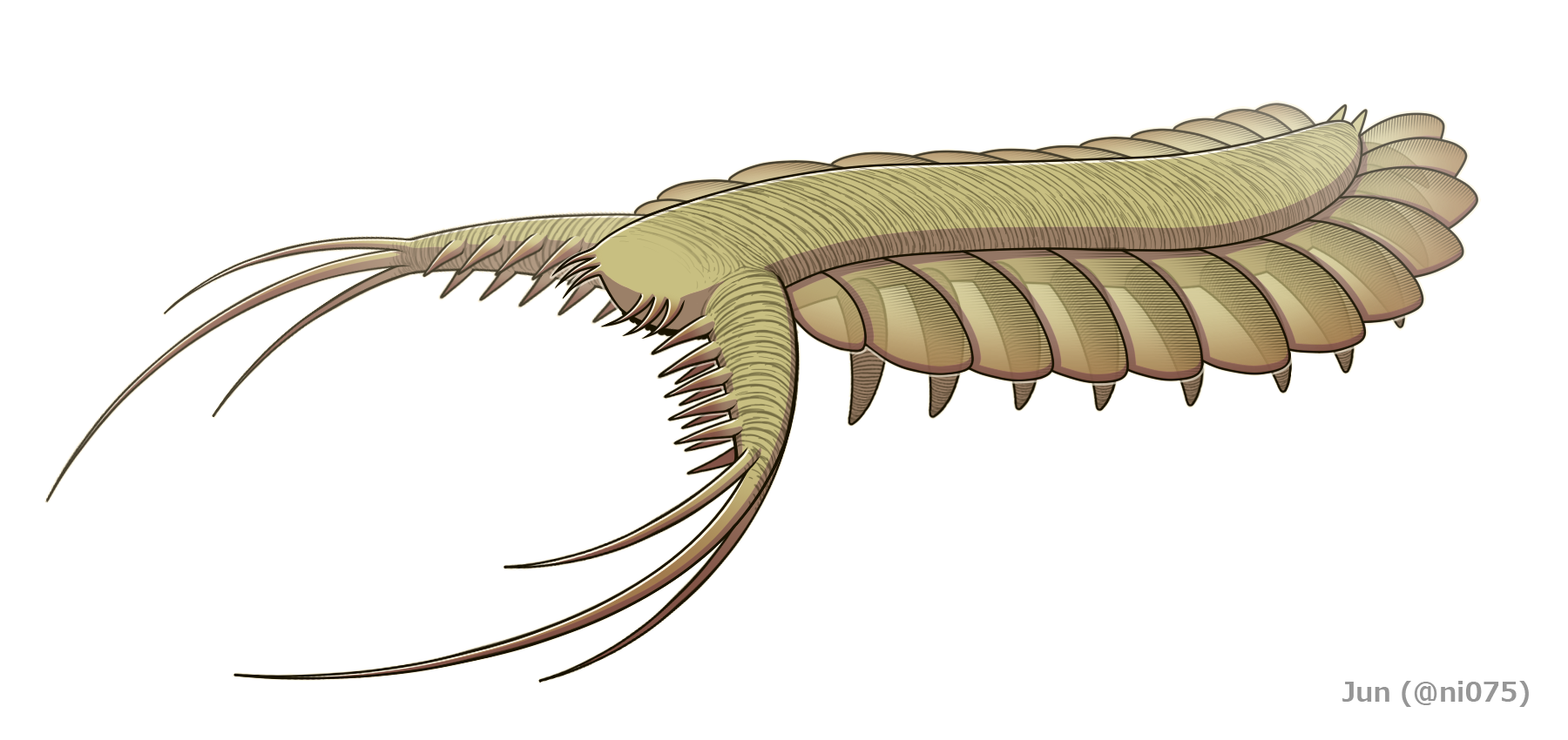 Reconstruction of Pambdelurion whittingtoni, a cambrian gilled lobopodian (dinocaridid、stem-group arthropod).